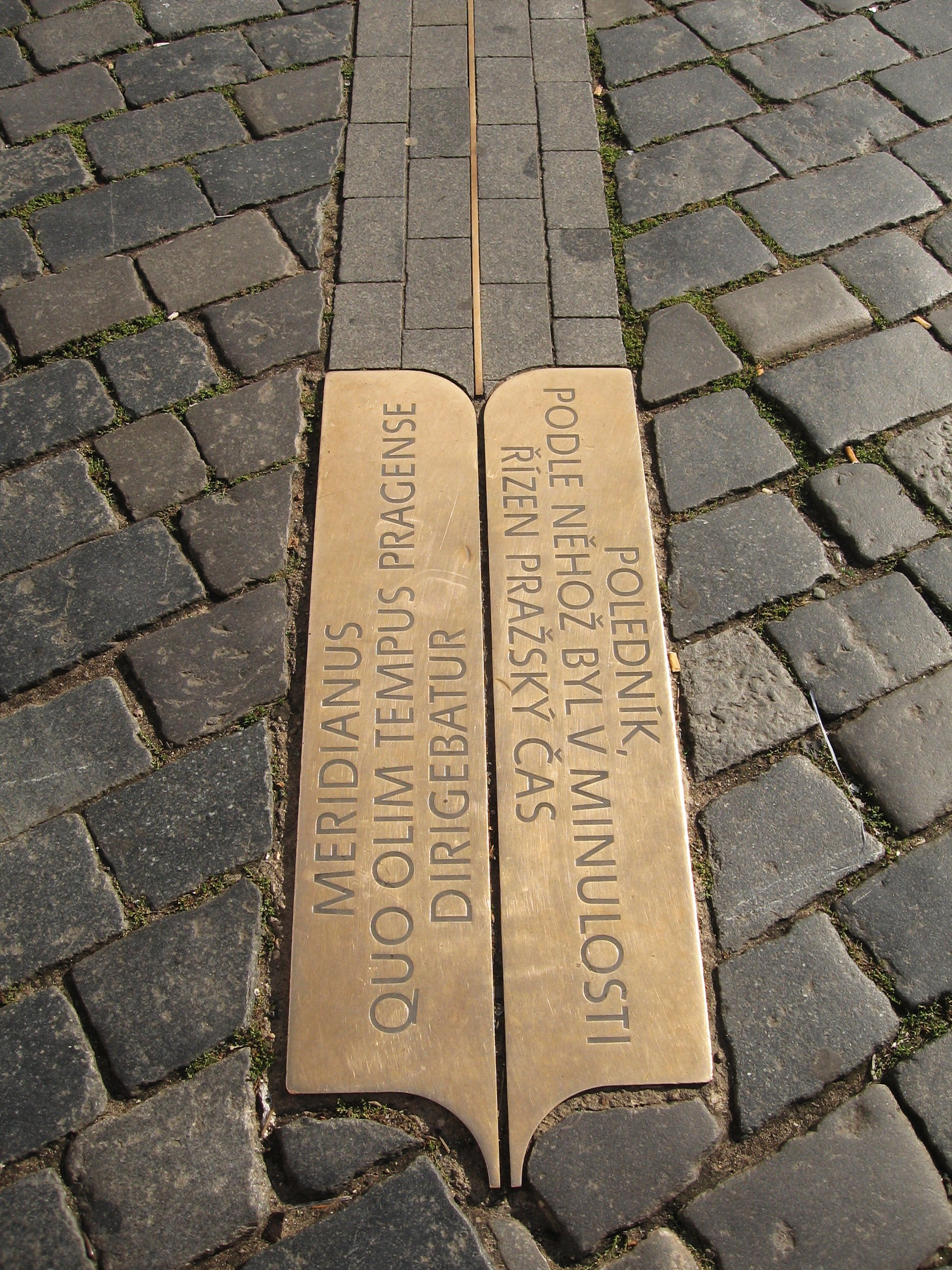 Historical Prague meridian.